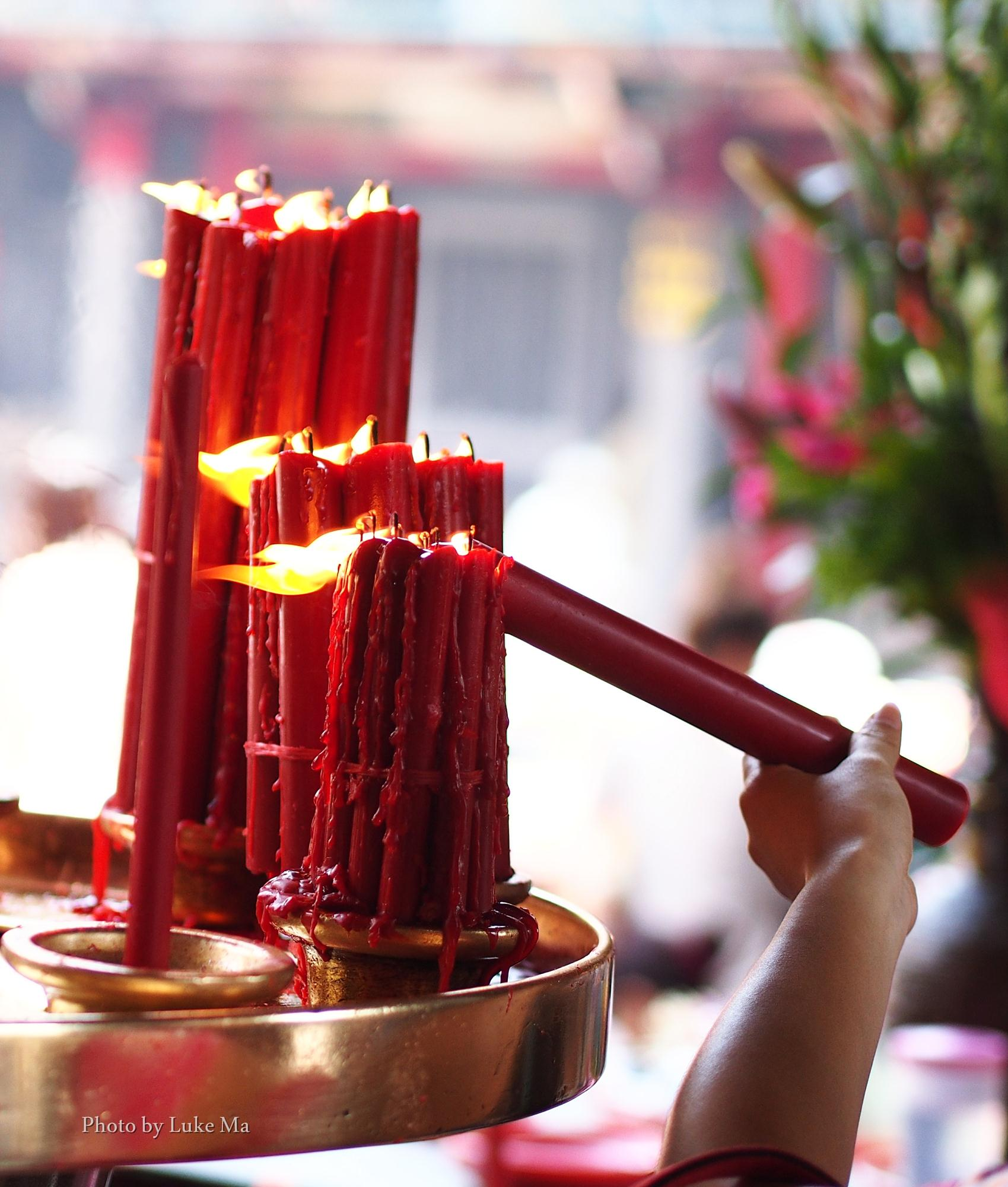 點蠟燭 龍山寺 台北 by Olympus OM-D E-M5 M.ZD M.ZUIKO 45mm F1.8